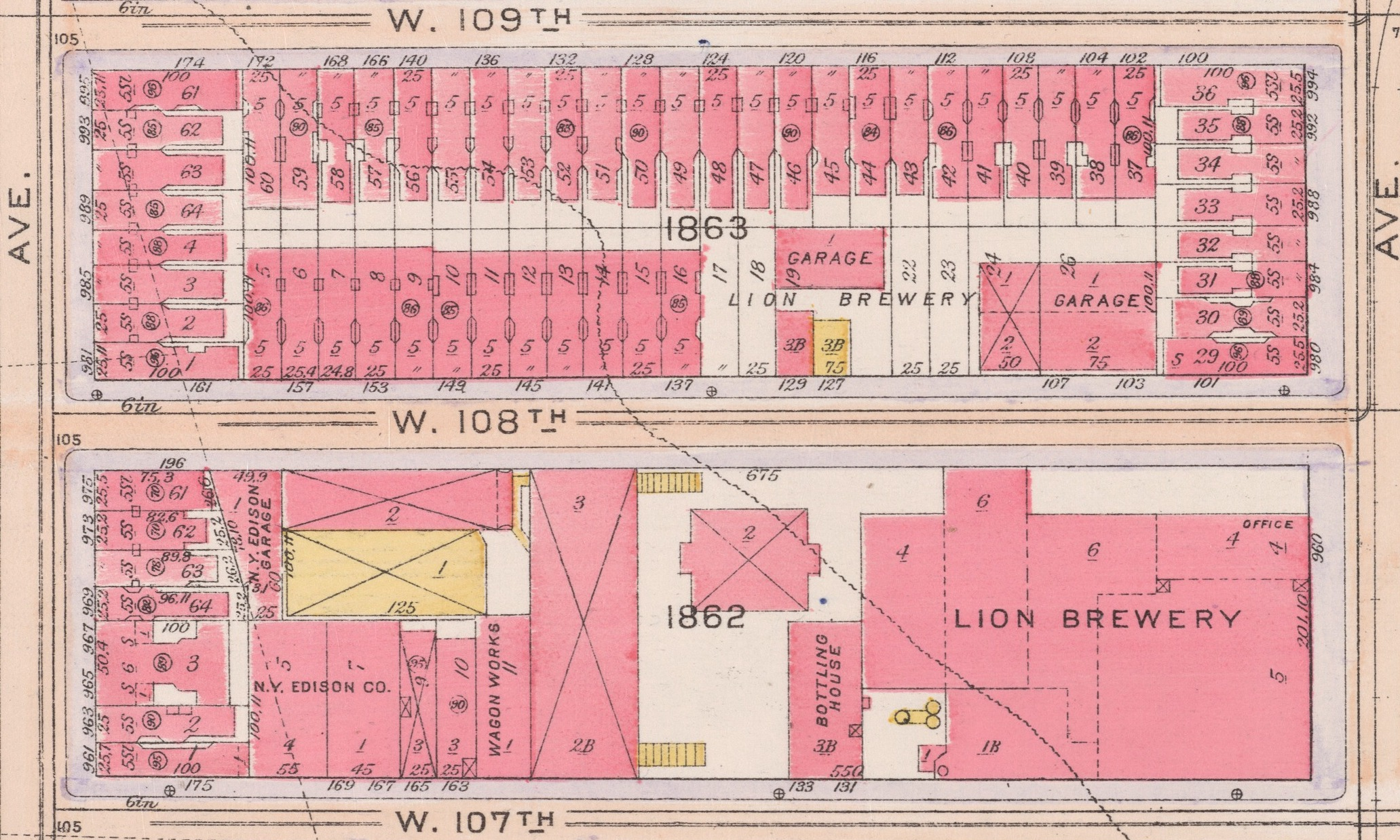 Plate 103 from: Bromley, George W. and Walter S. Atlas of the Borough of Manhattan City of New York. Desk and library edition. (New York: G. W. Bromley and Co., 1916) FOR KEY TO MAP SYMBOLS, CLICK HERE.